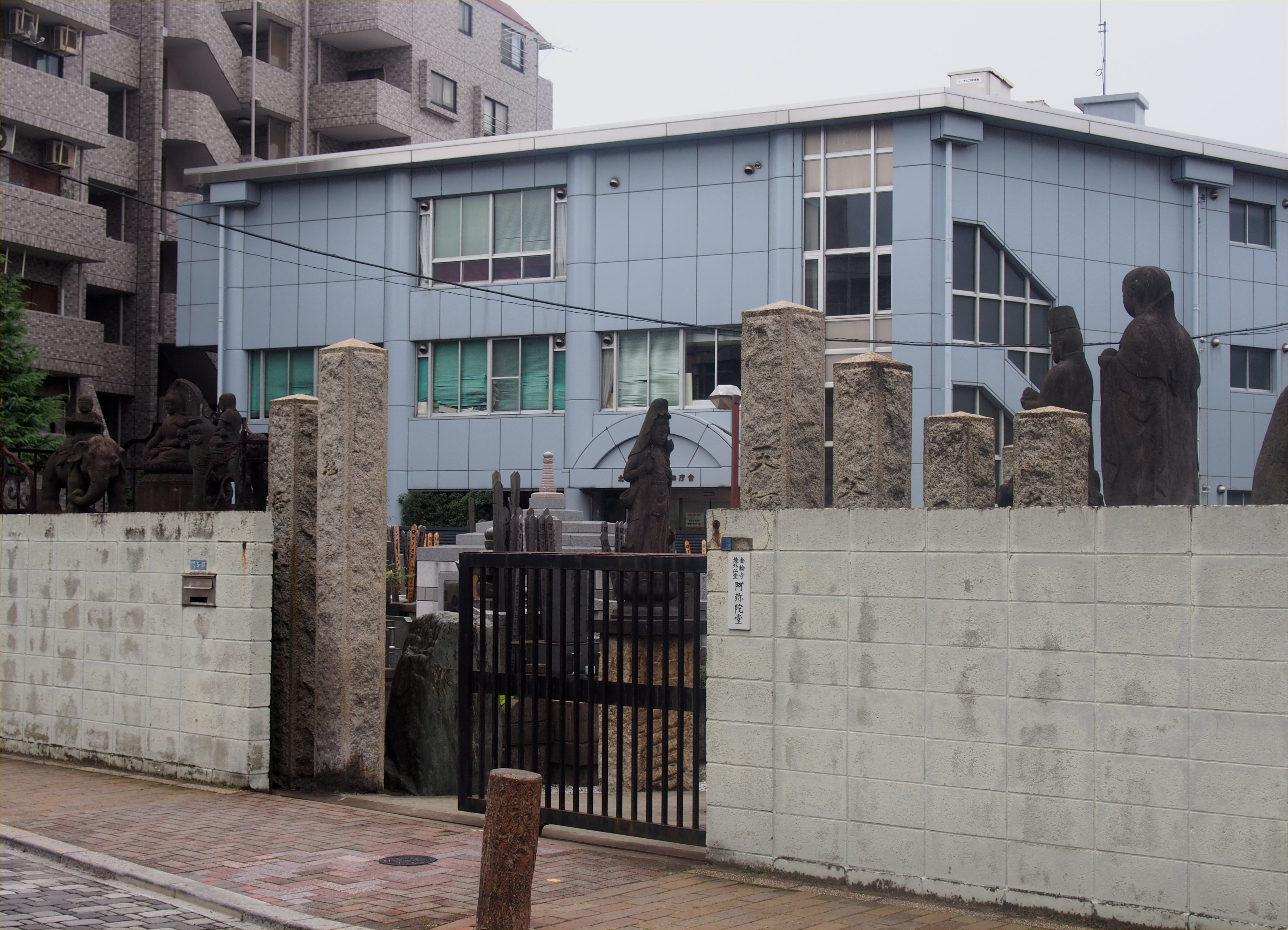 A photo of Amidado temple,Ojihoncho,Kita-ku,Tokyo,Japan.